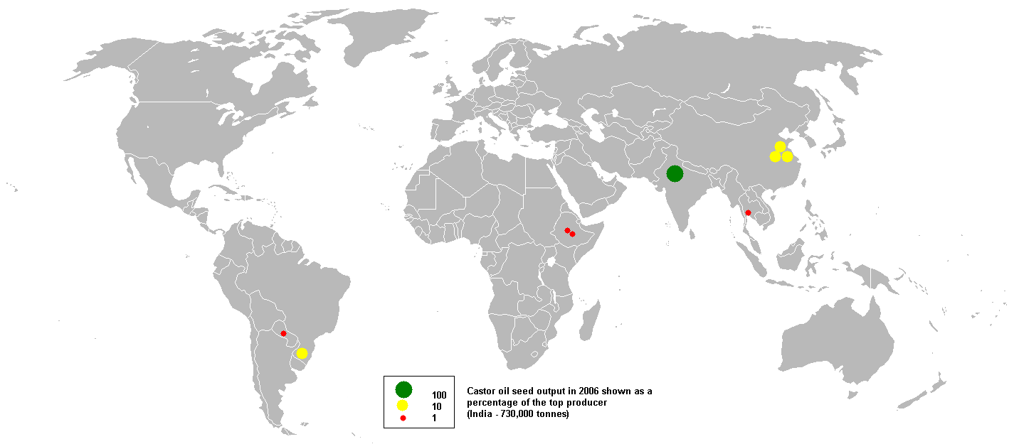 This bubble map shows the global distribution of castor oil seed output in 2006 as a percentage of the top producer (India - 730,000 tonnes). This map is consistent with incomplete set of data too as long as the top producer is known. It resolves the accessibility issues faced by colour-coded maps that may not be properly rendered in old computer screens. Based on Image:BlankMap-World.png